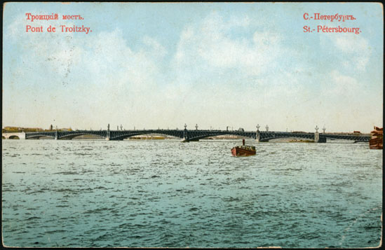 Saint Petersburg (Russia), Trinity Bridge.